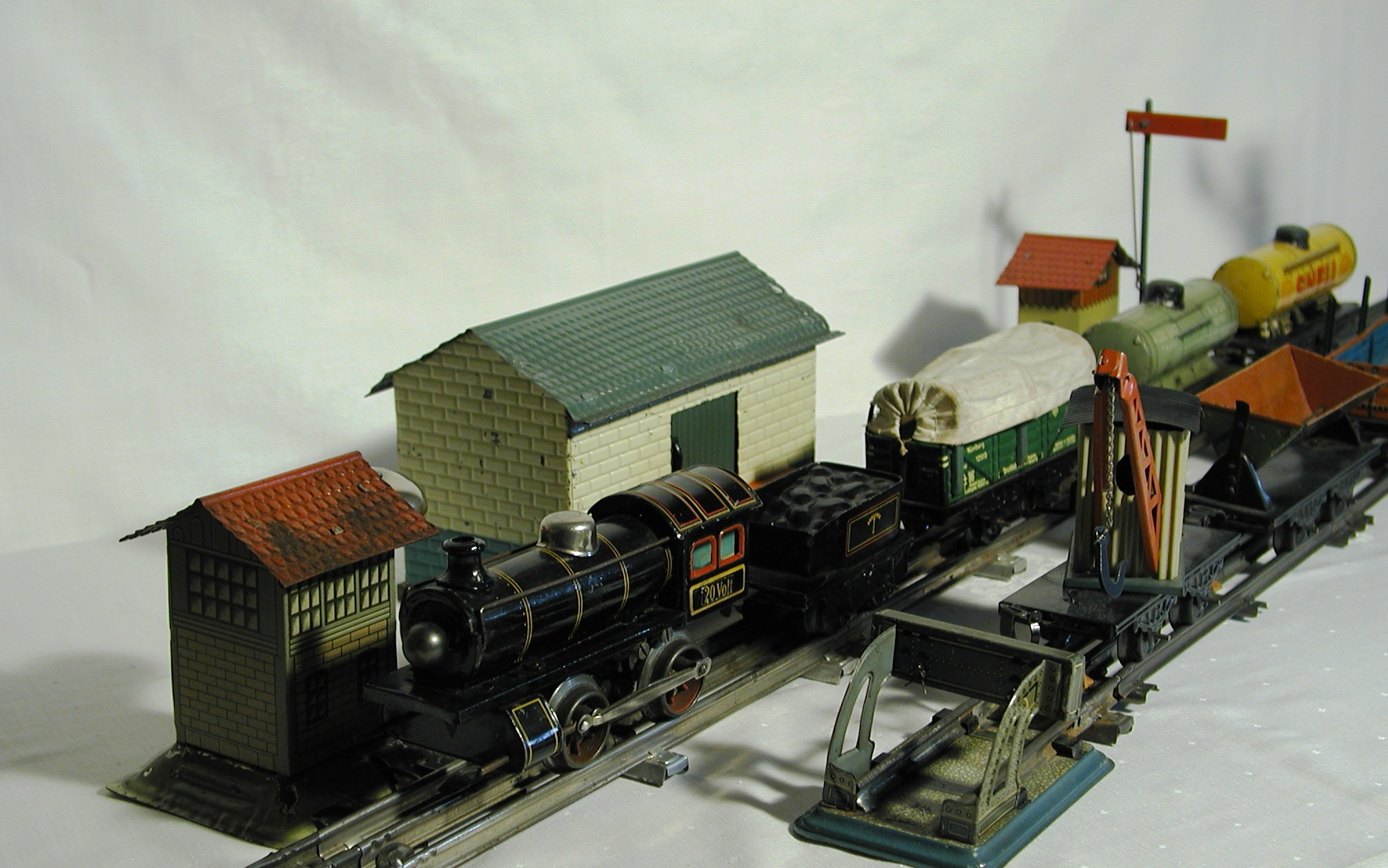 Kraus Fandor